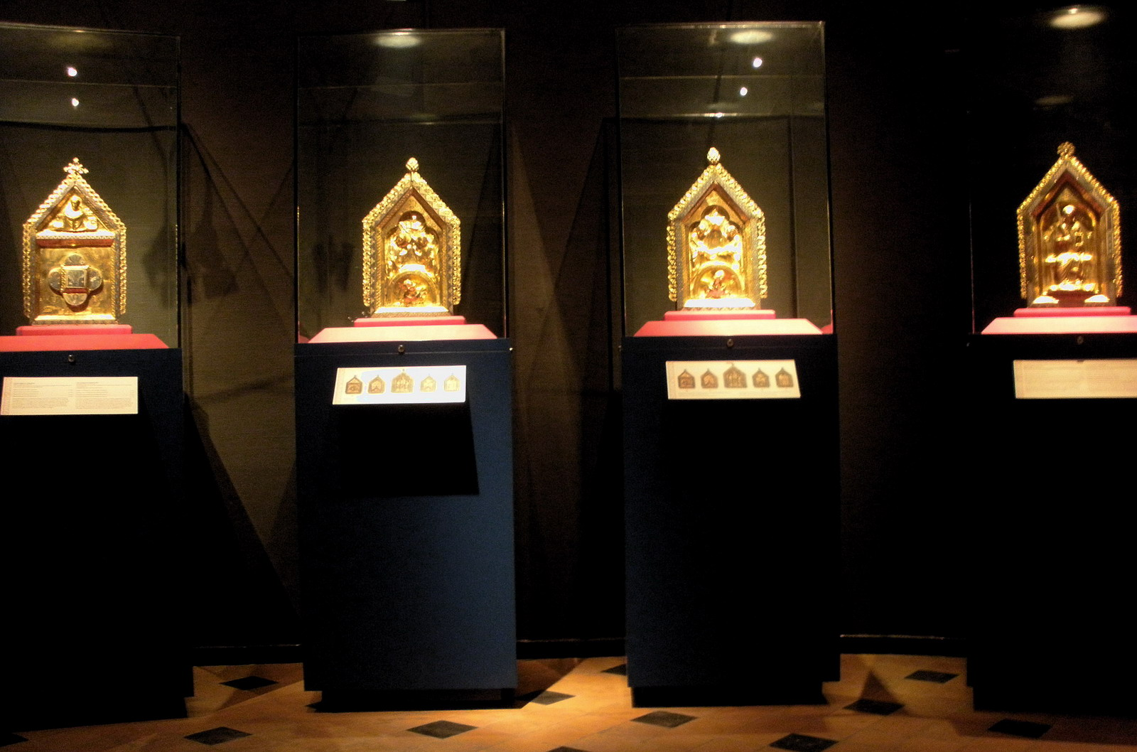 Reliquaries of St Monulph, St Gondulph, St Candidus and St Valentinus. Mosan (Maastricht?), XIIth c., gilded copper over oak wood with filigrain and enamel. Four reliquaries, originally part of the treasure of the church of Saint Servatius, Maastricht, Netherlands, where they were displayed on either side of the reliquary chest of Saint Servatius. Collection: Royal Museums of Art and History (Cinquantenaire Museum), Brussels, Belgium.